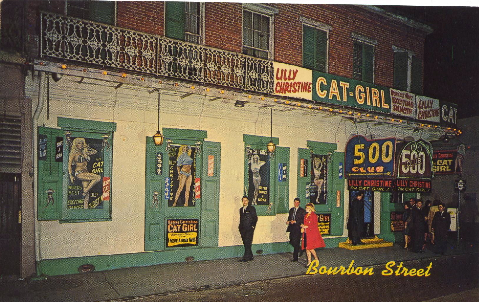 New Orleans. Postcard view of the 500 Club on Bourbon Street, with promotional posters for burlesque performer Lilly Christine "The Cat-Girl". Text on back of card: "Famous Bourbon Street where tourists go slumming to see the Paris of America. Gay, daring and risque entertainment continues on thru the night."